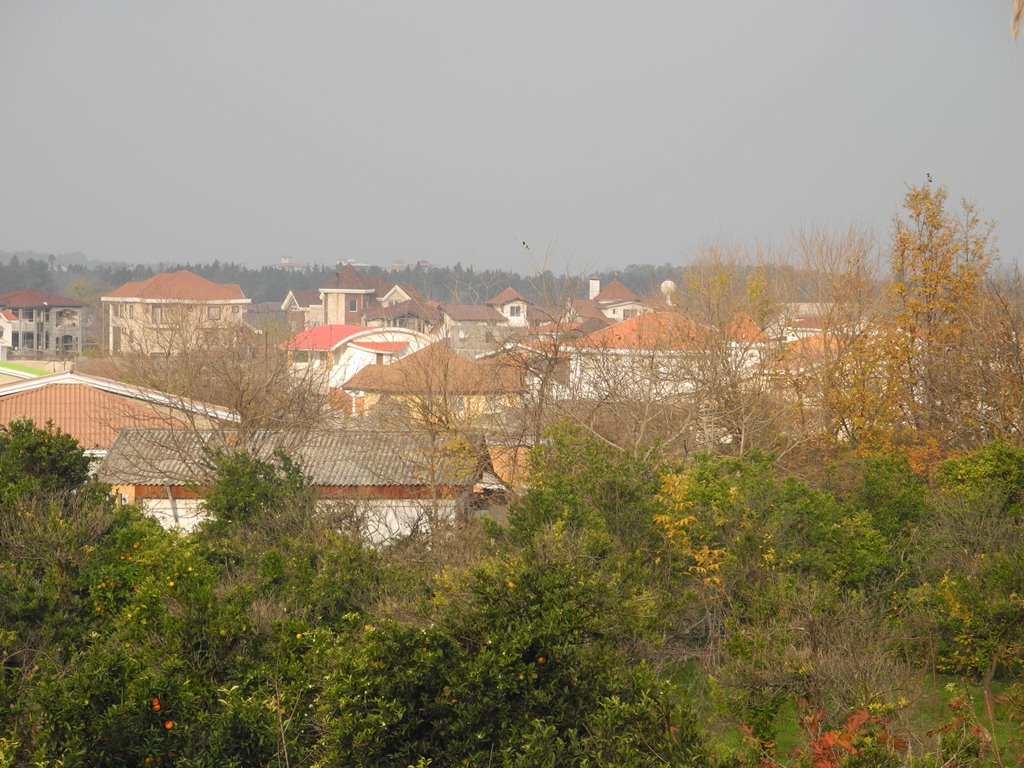 Royan - Mazandaran- Iran